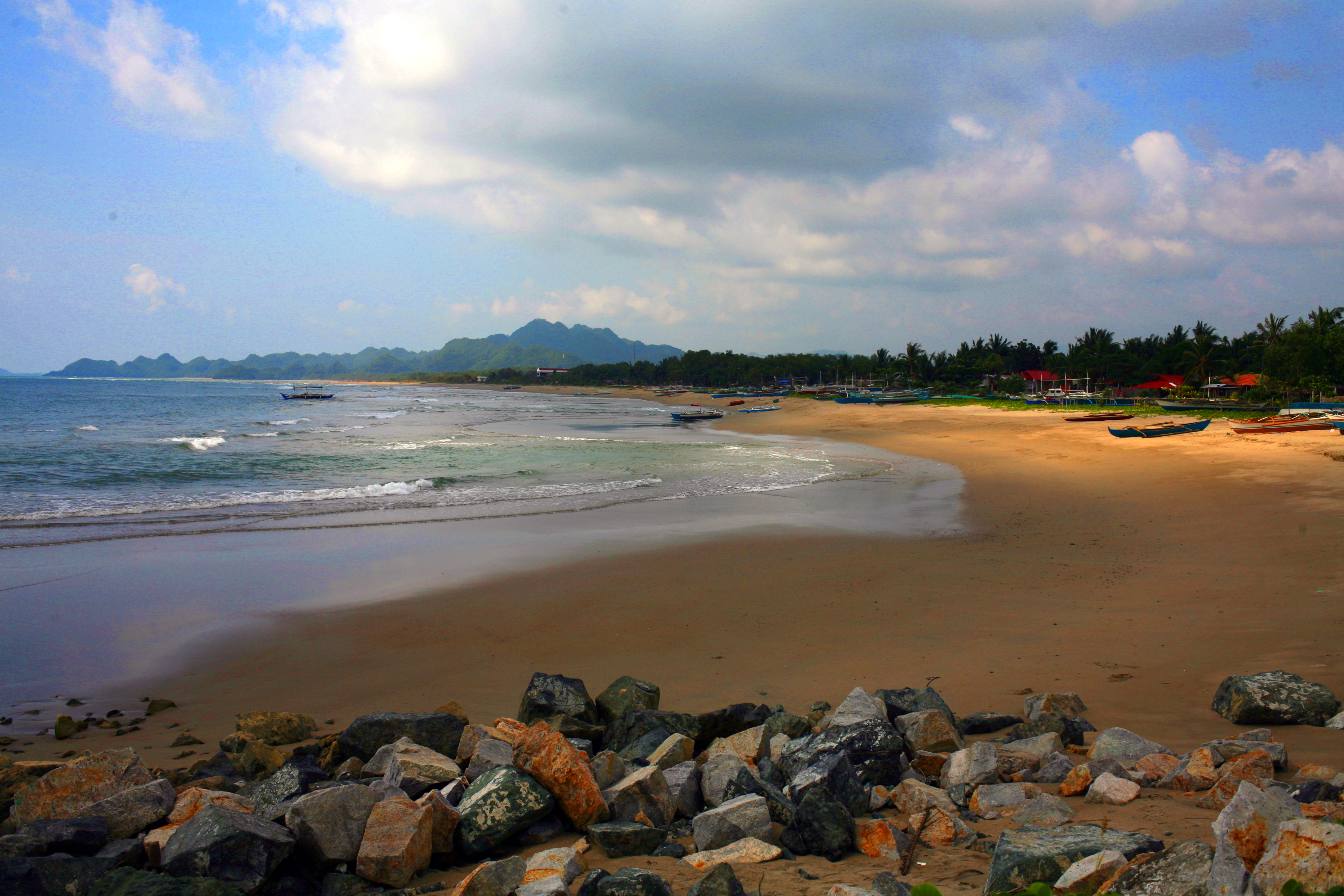 Beach in Sipalay, Negros Occidental, Philippines Hiligaynon: Hunasan sa Sipalay, Nakatungdan nga Negros (Negros Occidental), Pilipinas